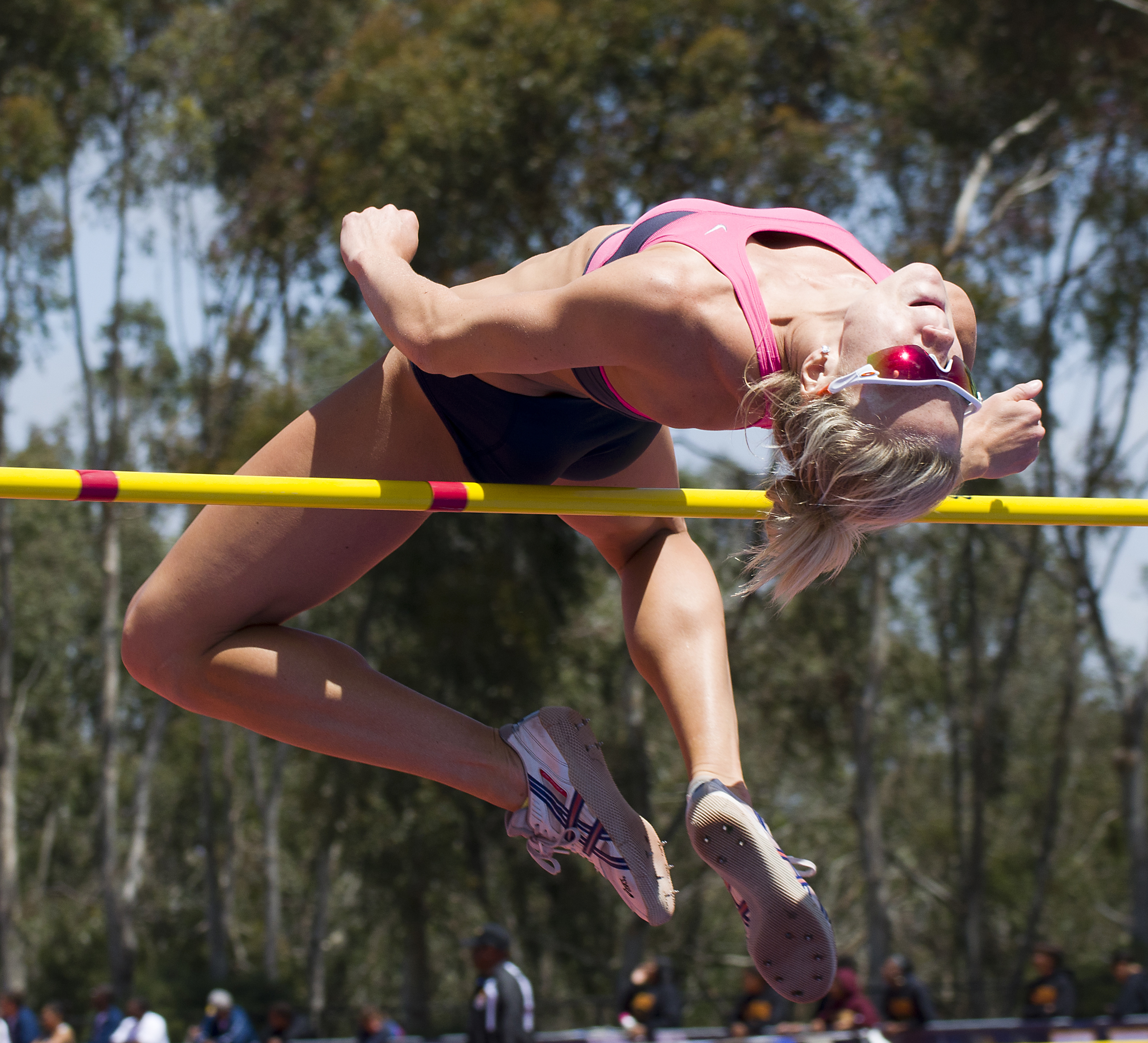 High Jump Triton Invitational 2011.